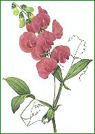 everlasting pea or sweet pea (Lathyrus), painted by Pierre-Joseph Redoute (10 July 1759 - 20 June 1840)